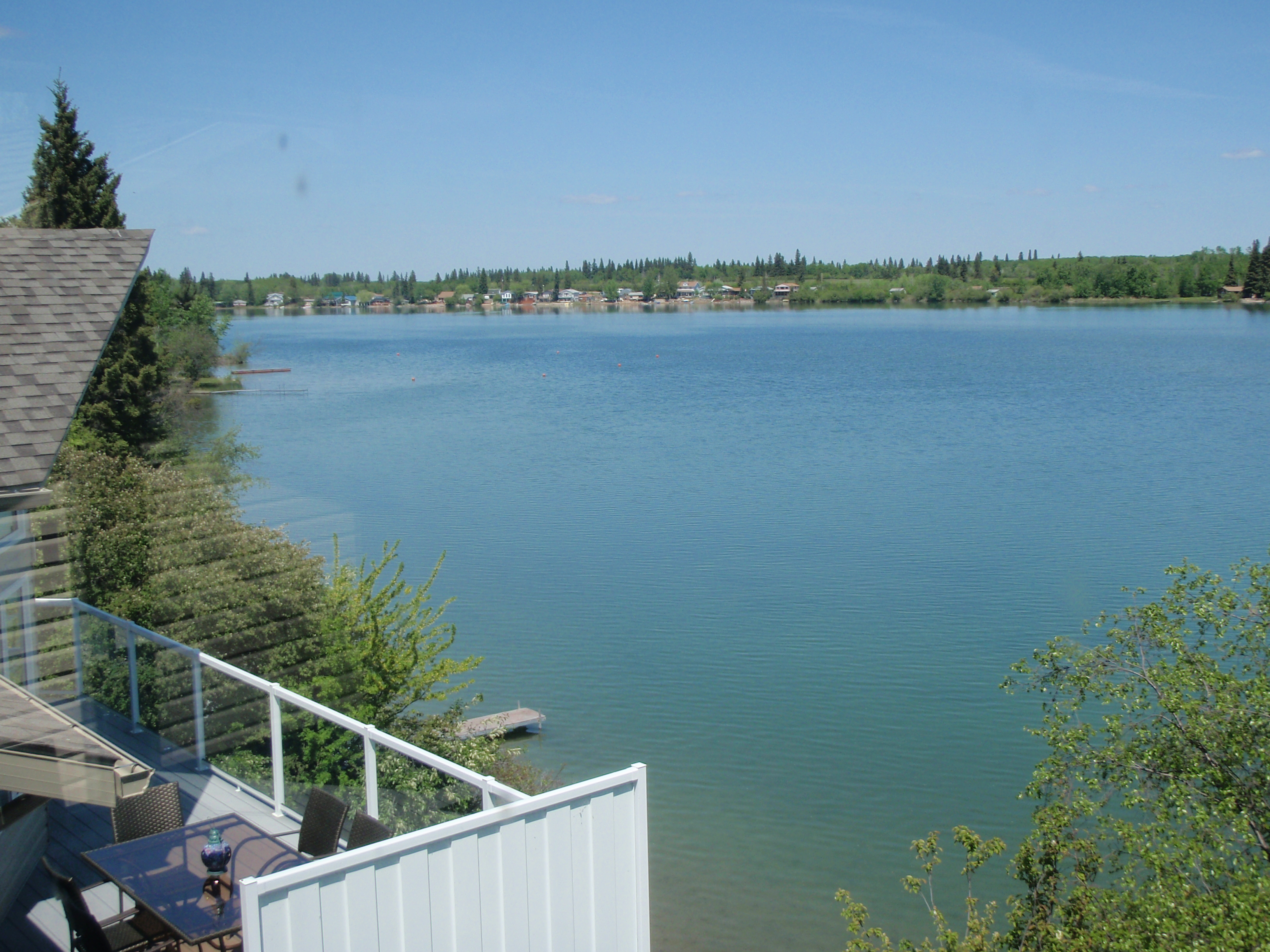 Crystal Lake View from Eastern Side of the Lake, Crystal Lake, Saskatchewan